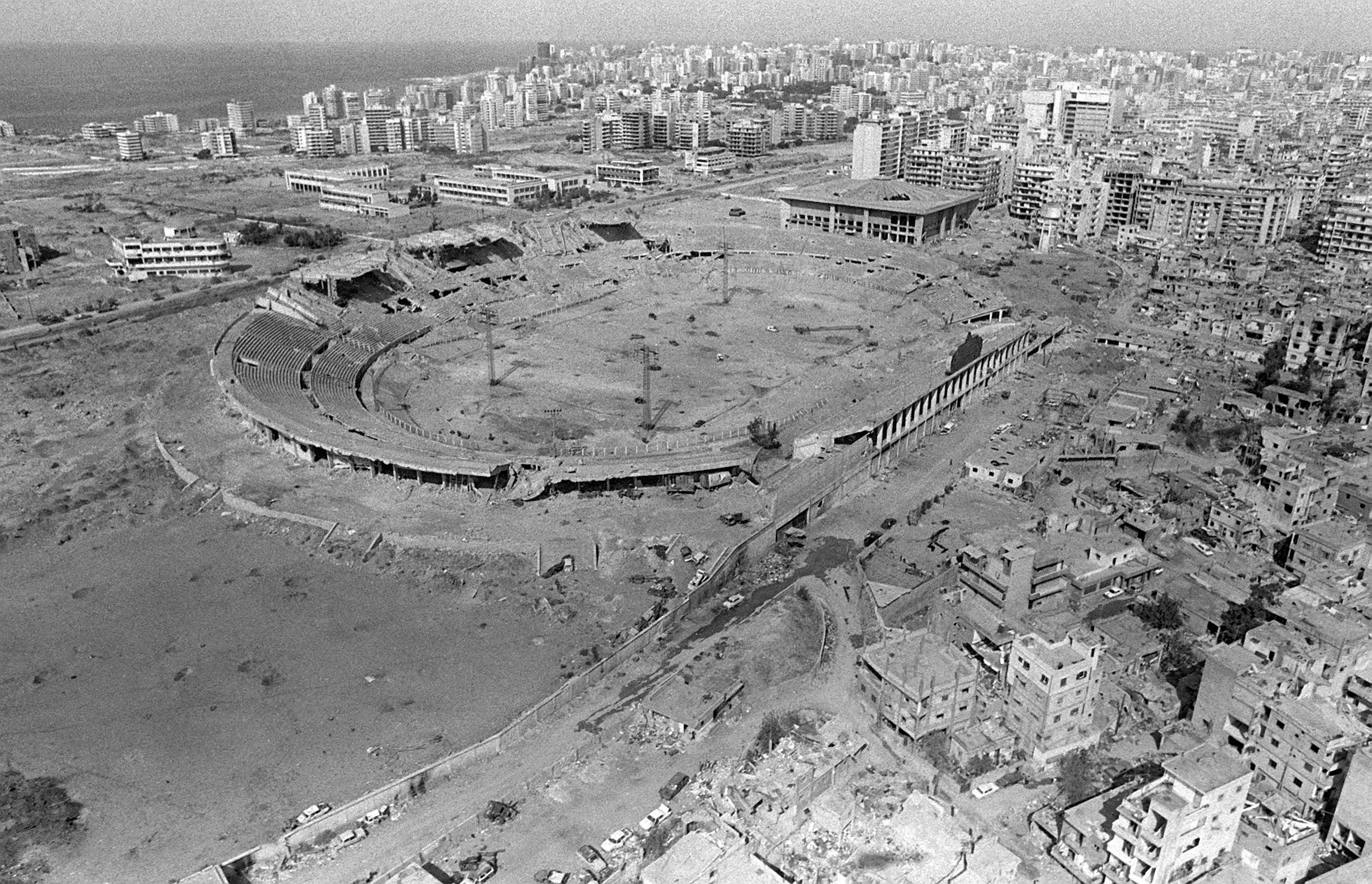 An aerial view of the stadium used as an ammunition supply site for the Palestine Liberation Organization during a confrontation with the Israelis. Marines have been deployed here to participate in a multinational peacekeeping operation.